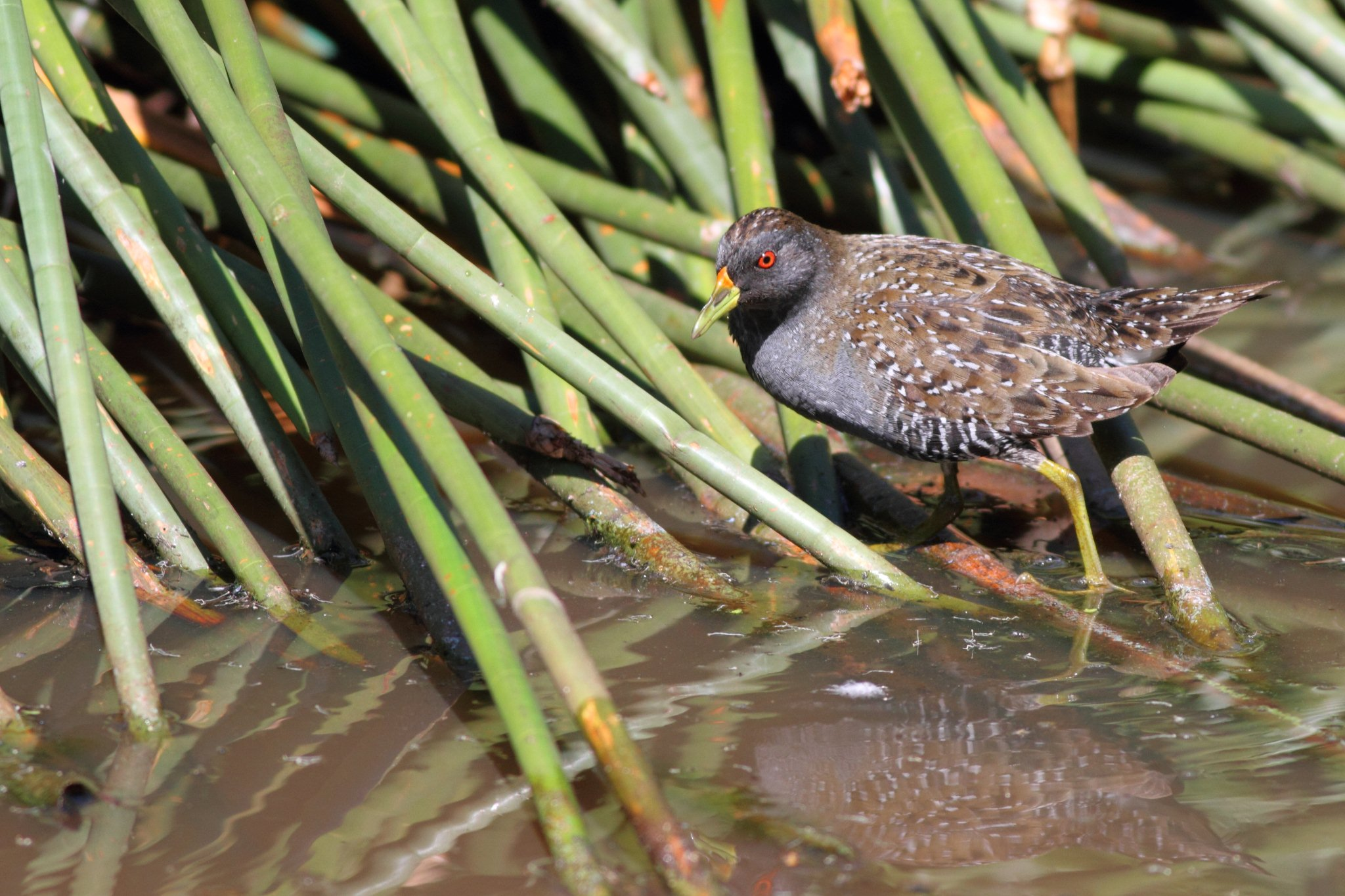 An Australian Crake at Coolart Wetlands, Mornington Peninsula, Victoria, Australia.